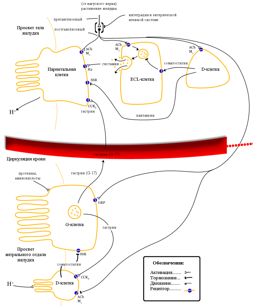 Russian language version file: image:Control-of-stomach-acid-sec.png Diagram summarising control of stomach acid secretion.